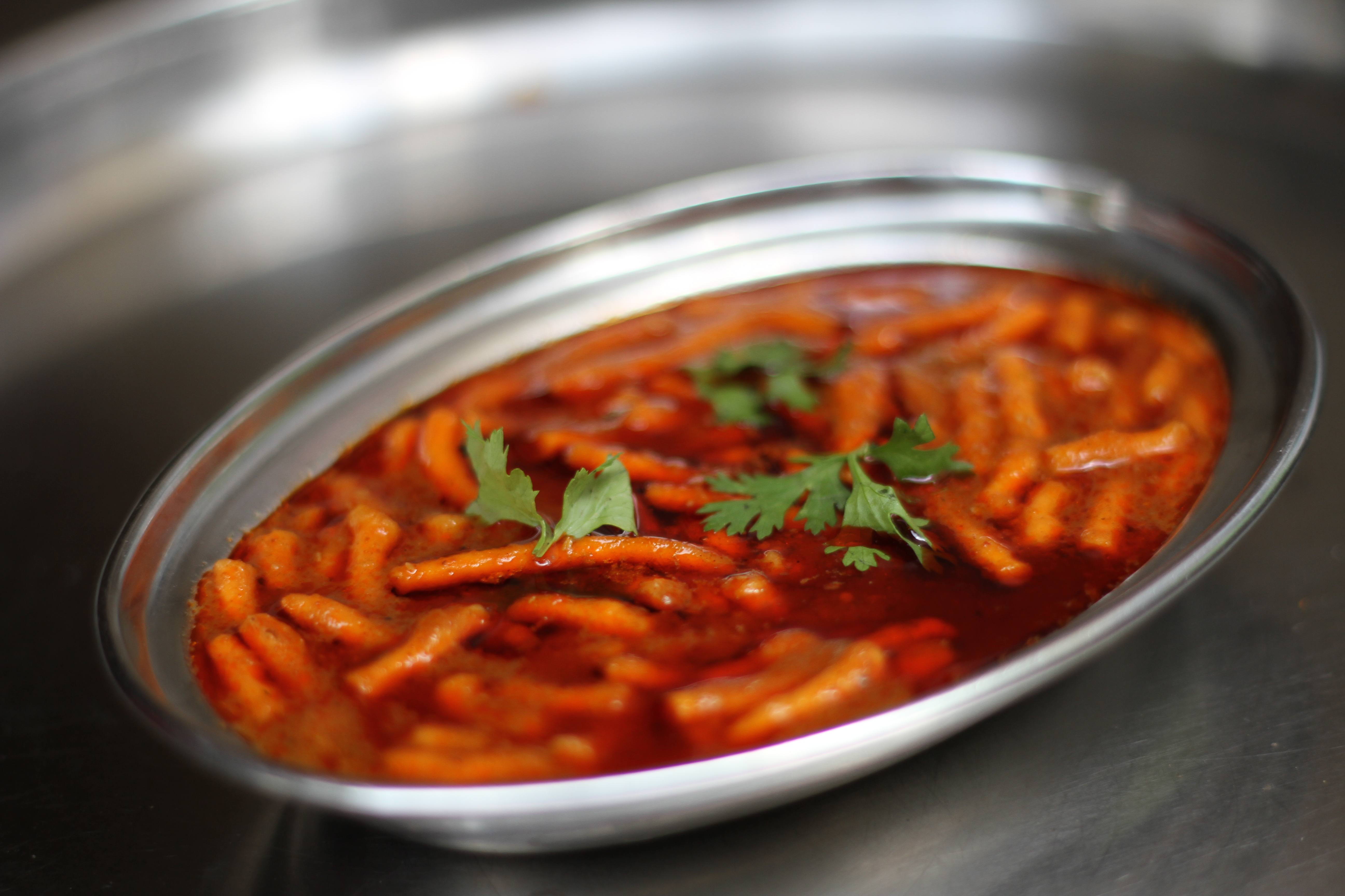 onion,coconut gravy with Khandeshy spices and shev